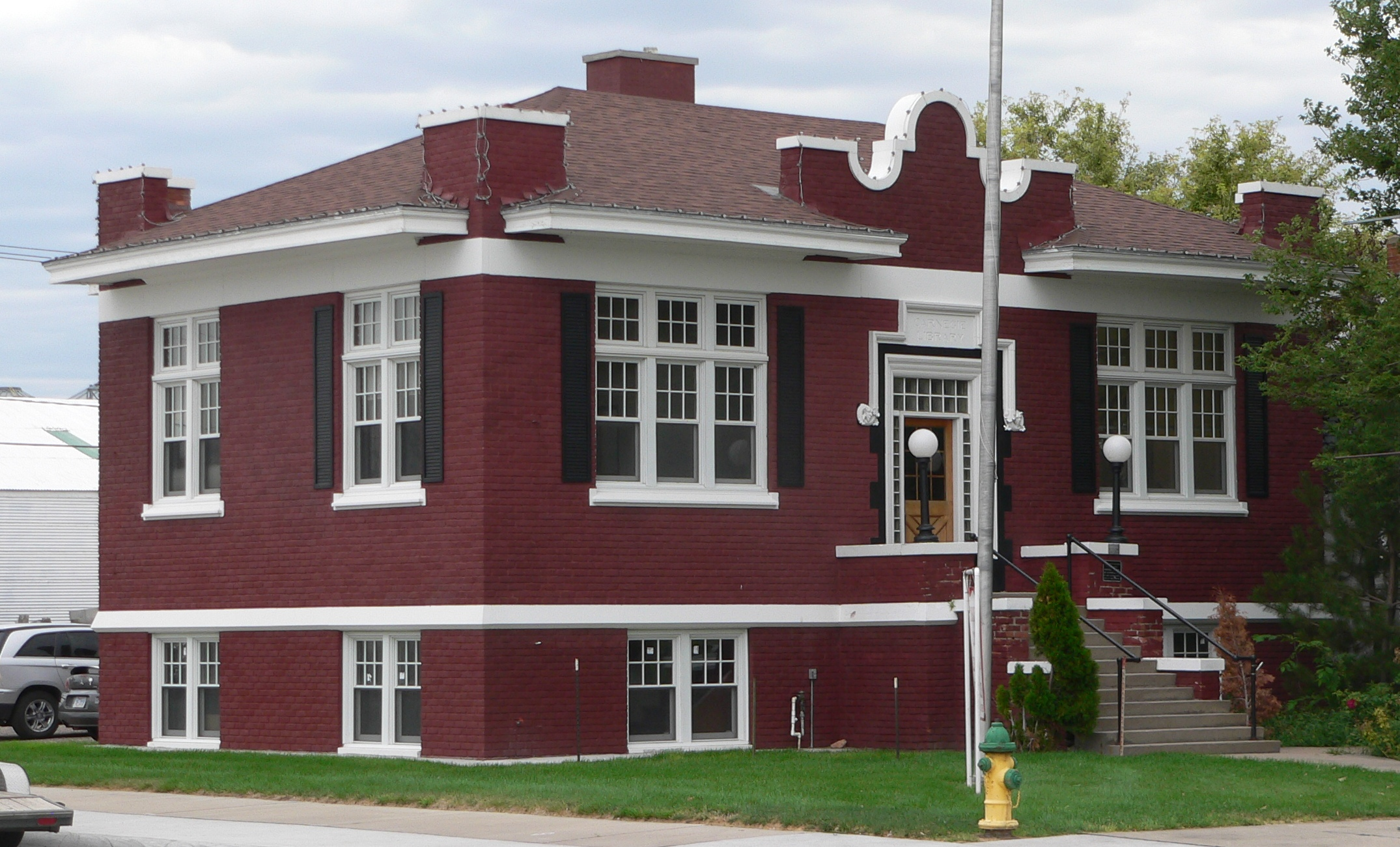 Sidney Carnegie Library building in Sidney, Nebraska; seen from the southwest. The Jacobethan building was constructed in 1914. It is listed in the National Register of Historic Places. It now houses the Cheyenne County Chamber of Commerce.